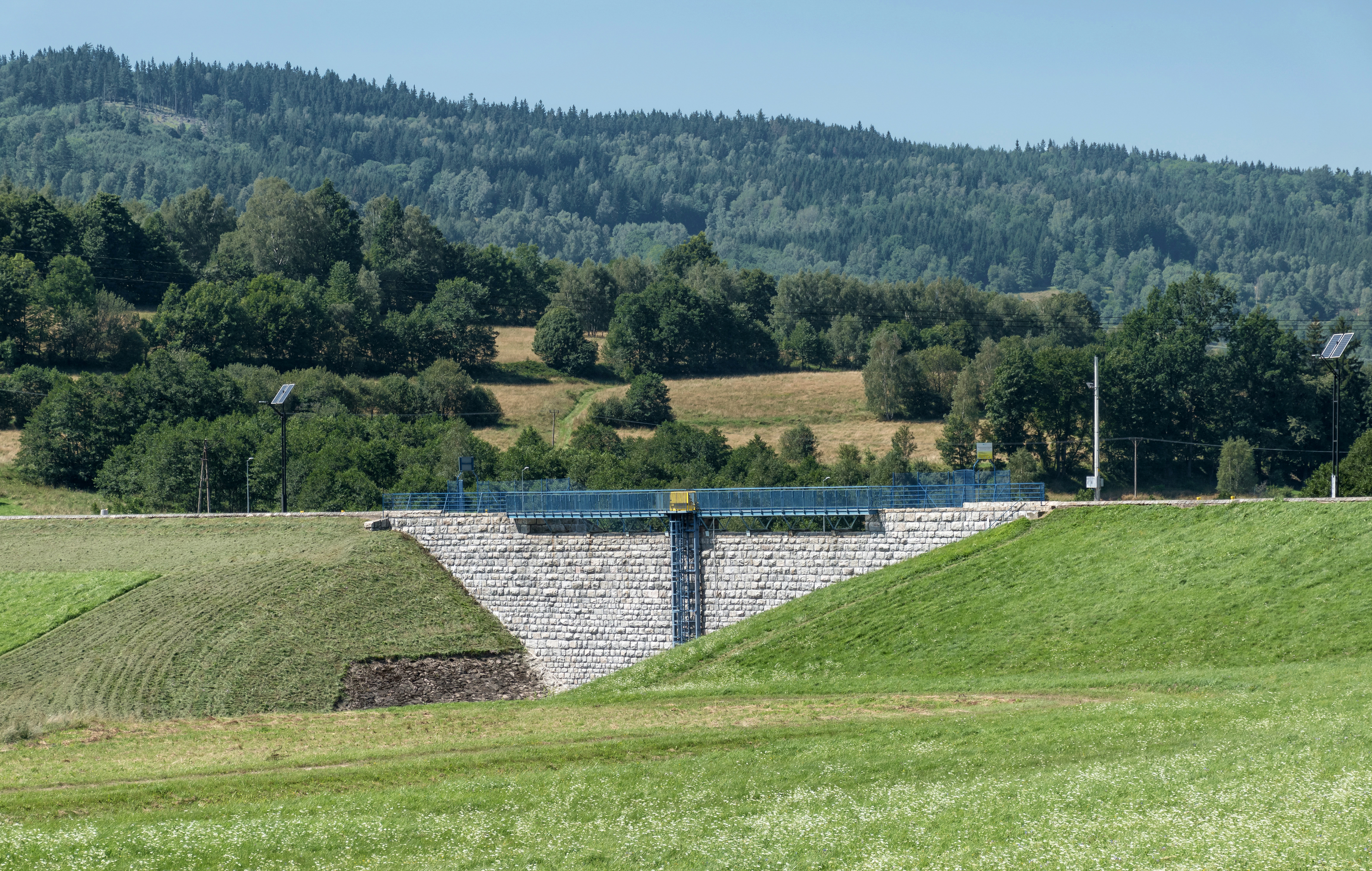 Dam in Stronie Śląskie